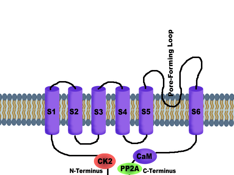 Here is show the six transmembrane segments of the SK channel, the P-loop between S5 and S6, as well as the associated intracellular protein elements: Cam, CK2, and PP2A.